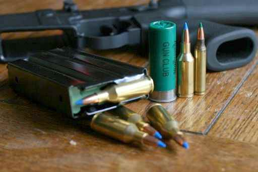 Winchester 25 WSSM cartridges loaded for a custom AR-15. Cartridge size compared to 2 3/4" shotgun shell & .223 Remington. Photo taken by chrisv_pdx.